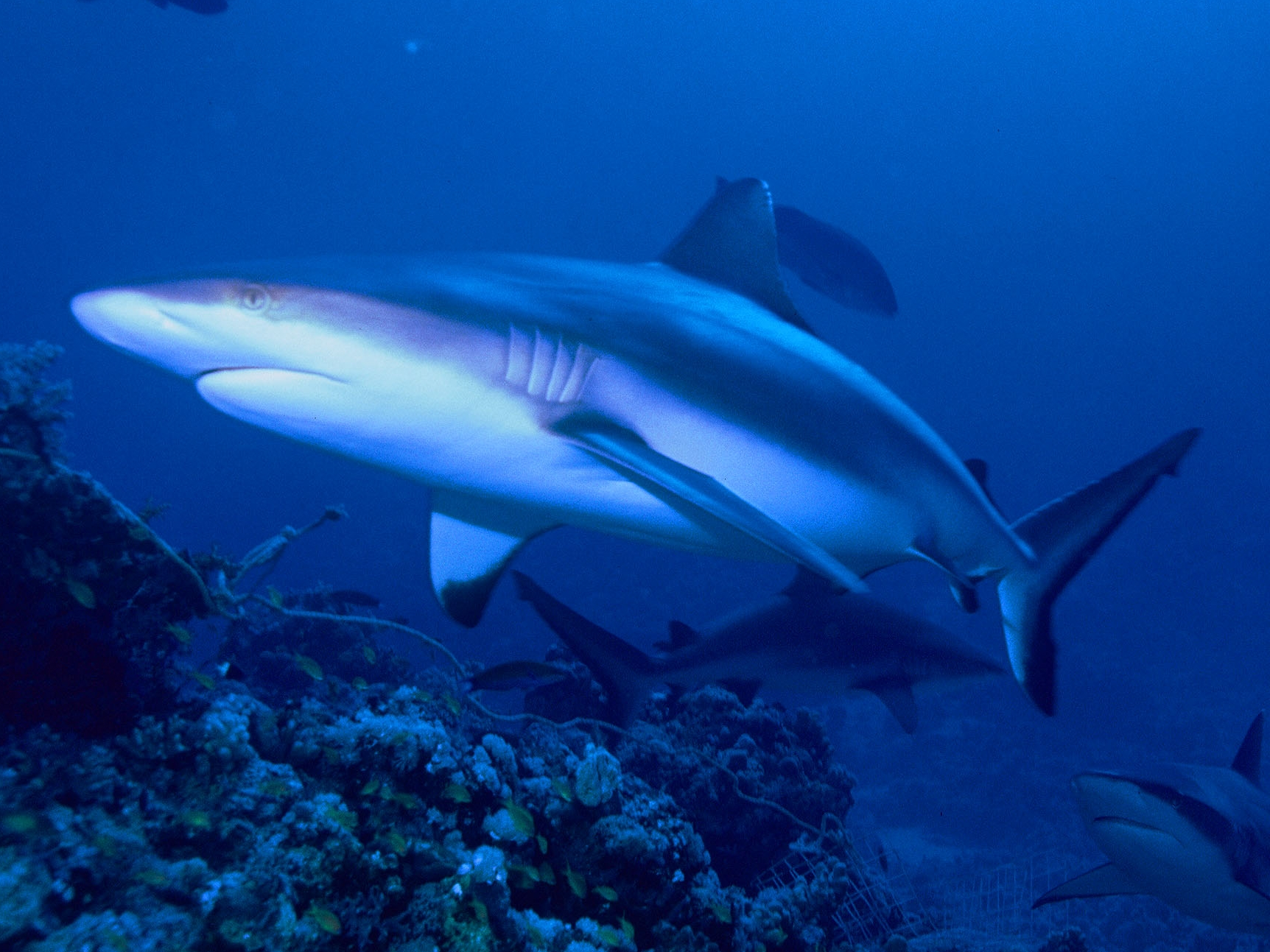 Cropped version of [1], that focuses closer on the main shark.